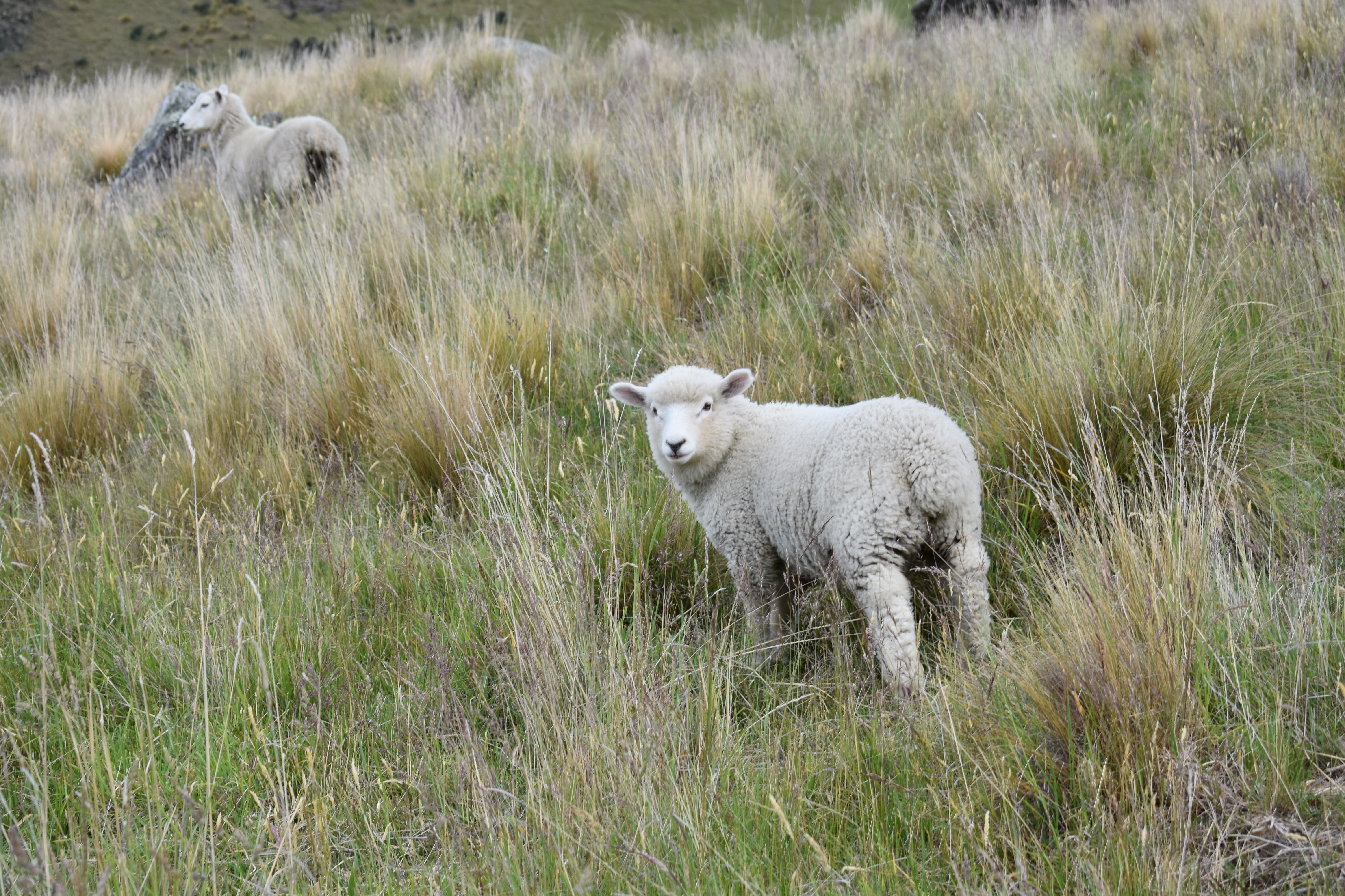 Sheep view during the Roy's peak walk